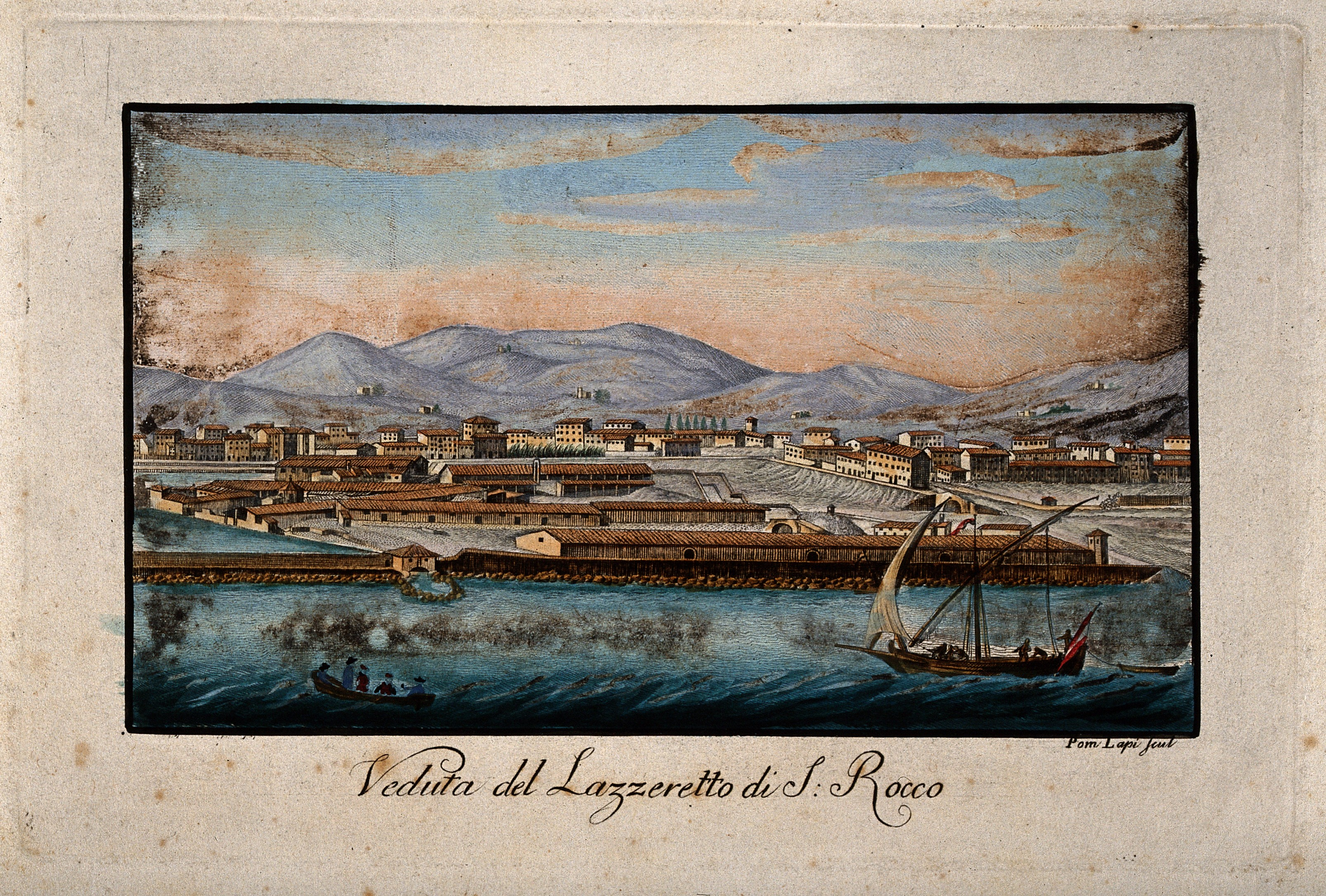 The lazaretto at Livorno, Tuscany, Italy: panoramic view. Coloured etching by P. Lapi. Iconographic Collections Keywords: Italy; lazaretto; Lazzaretto di San Rocco (Livorno, Italy); xviii century; lapi, pompeo; Pompeo Lapi